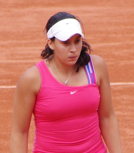 Bartoli close up during match against Maria Elena Camerin